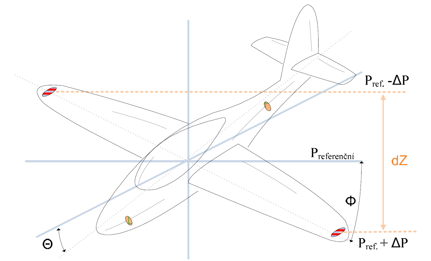 The image shows measurement entry points which forms Pressure Measurement System which is used to improve performance of Inertial Navigation System.